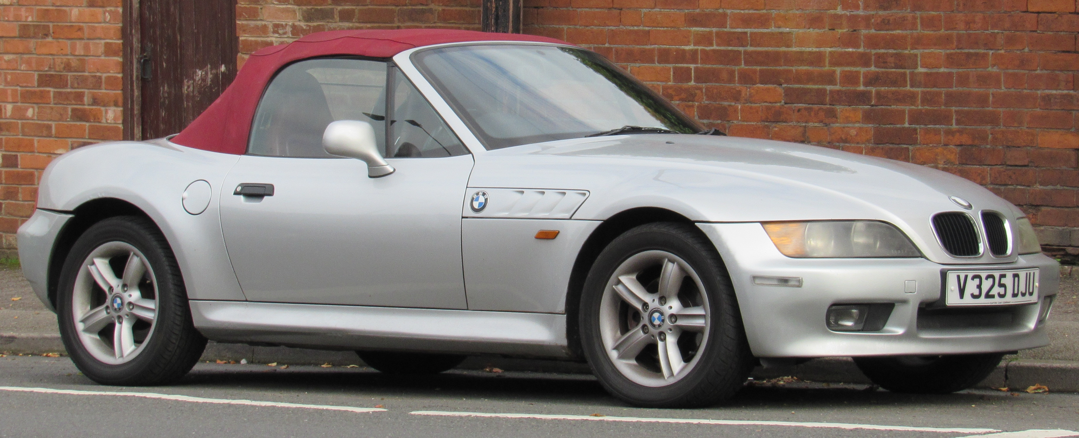 1999 BMW Z3 1.9 Front Taken in Leamington Spa